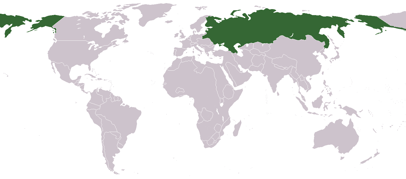 Location of the RussianEmpire in 1860, derivative work since Aivazovsky's LocationRussianEmpire1914.png